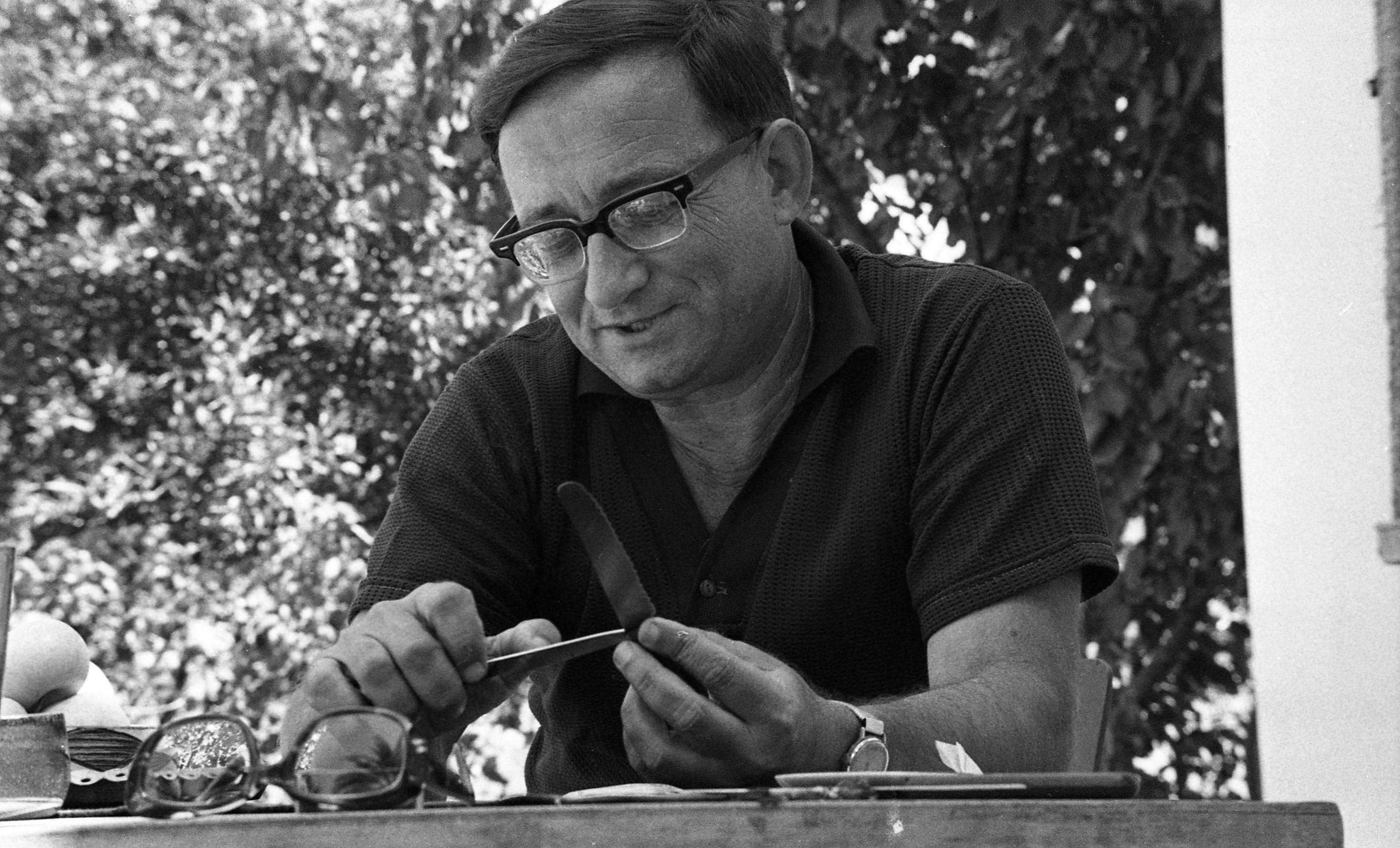 Azaria Alon.